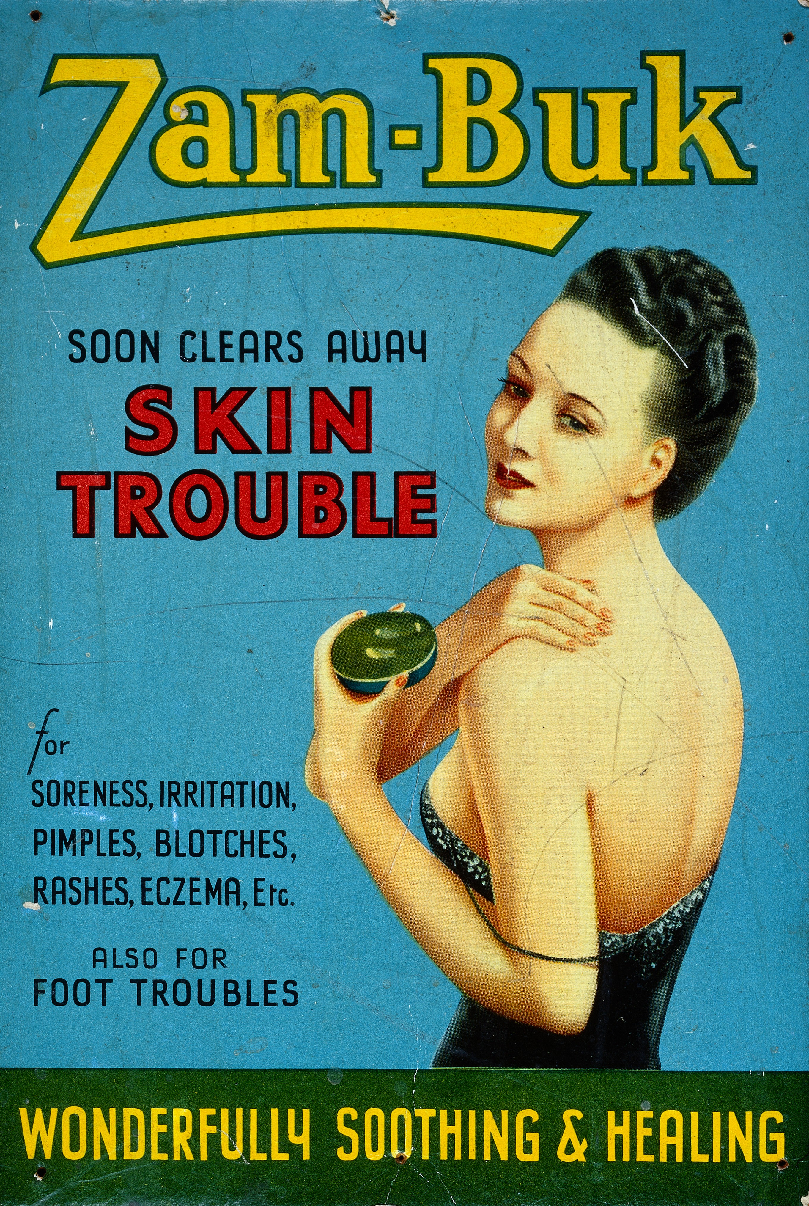 Ephemera Collection: QV / showcards: 1920-1950's. Showcard advertising Zam-Buk "Zam-Buk soon clears away skin trouble". General Collections Keywords: advertising; ephemera collection; showcard; zam-buk